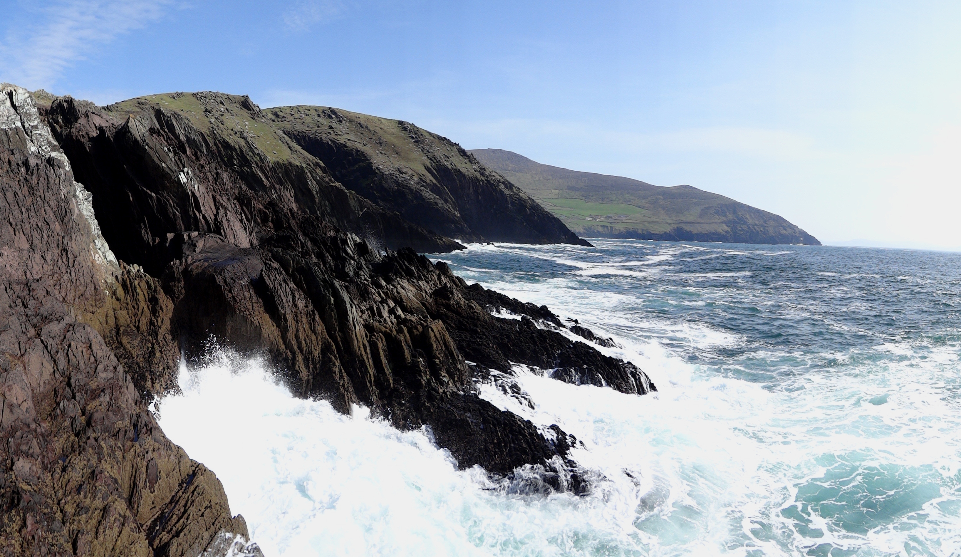 The view from Dunmore Head on the Dingle Peninsula, Ireland, towards south-east from as far west in Ireland as you can go on a day with really nice weather. The promontory in the back right is Slea Head.